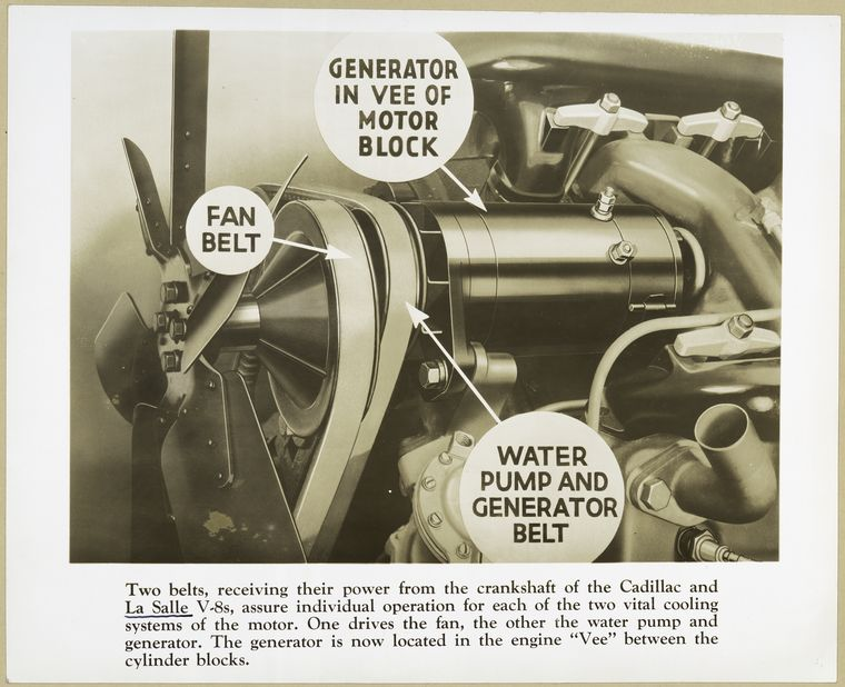 Cadillac - LaSalle 1937 V-8 Engine Detail (3592670909) Digital ID: 482058. Two belts, receiving their power from the crankshaft of the Cadillac and La Salle V-8s. Source: Photographs of General Motors and Chrysler car and truck models, 1902 - 1938. / 1902-1938. Cadillac - Chrysler - De Soto - Dodge - LaSalle - Plymouth. Photographs - Specifications. ( Repository: The New York Public Library. Science, Industry and Business Library. General Collection Division. See more information about and others at Persistent URL: Rights Info: No known copyright restrictions; may be subject to third party rights (for more information